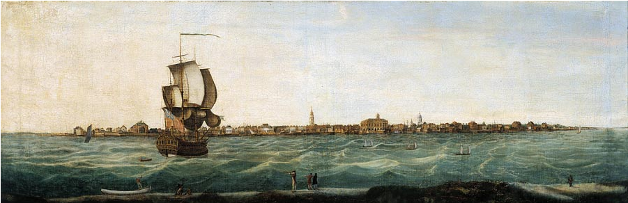 Charleston, South Carolina: Oil on canvas, HOA: 20 ¼”, WOA: 60” One of the most remarkable landscapes produced in the early South is of the port of Charleston, painted in 1774 by Thomas Leitch (or Leech). Leitch advertised his plan to sell engraved copies of his "Portrait of the Town," so exact, "that every House in View will be distinctly shown." The ship that dominates the view appropriately alludes to the trade with Great Britain that drove Charleston's economy. In the foreground are three African American figures, representing those whose labor produced the agricultural goods that made Charleston the wealthiest city in British North America at the time of the Revolution.